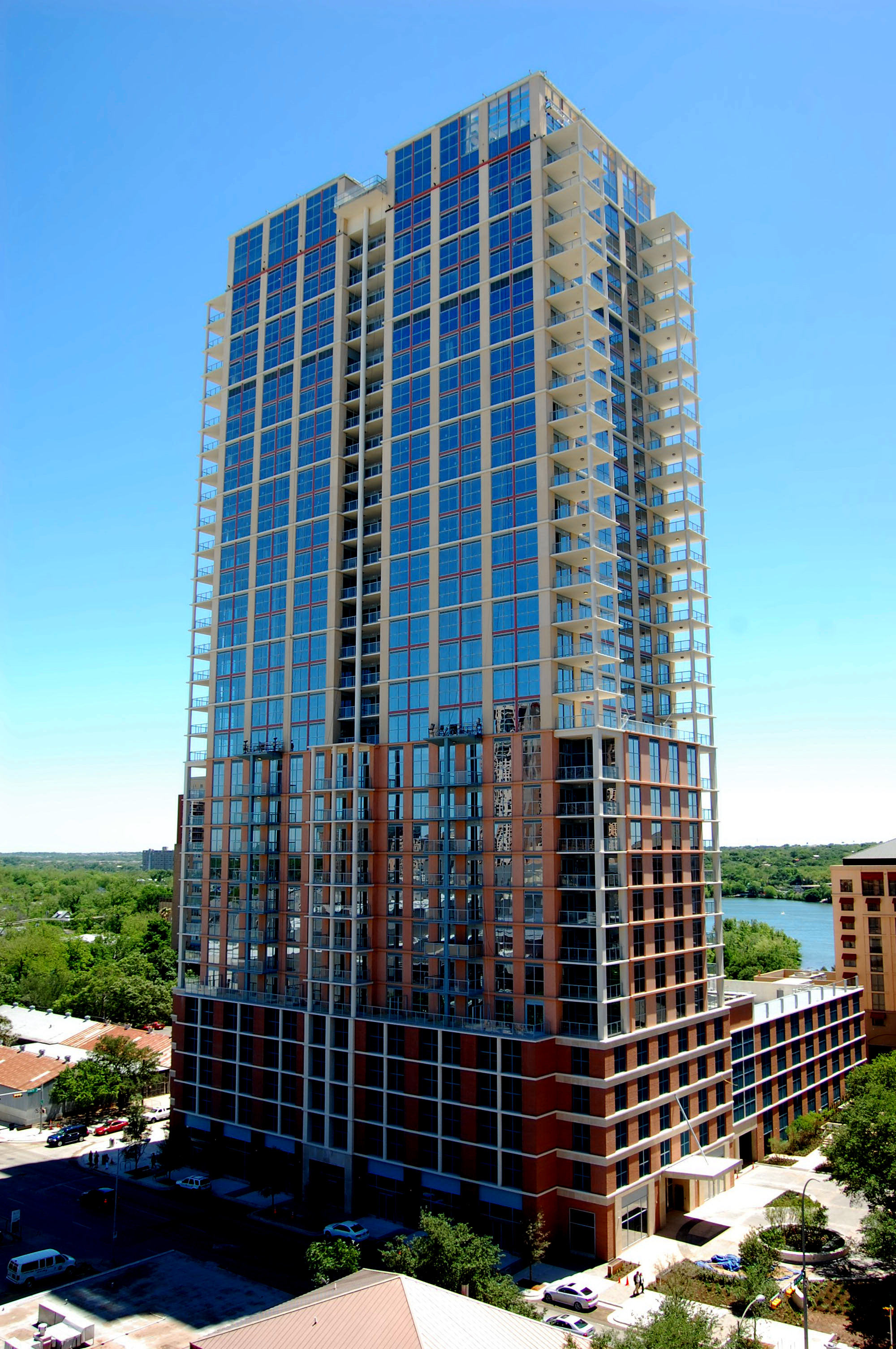 Four Seasons Residences